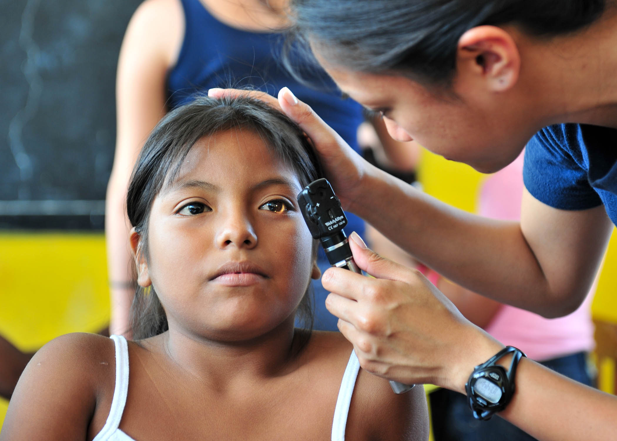 PAITA, Peru (May 3, 2011) Lt. Patricia Salazar, from Freemont, Calif., examines a patient's eyes at a Continuing Promise 2011 medical clinic set up by staff assigned to the Military Sealift Command hospital ship USNS Comfort (T-AH 20). Continuing Promise is a five-month humanitarian assistance mission to the Caribbean, Central and South America. (U.S. Navy photo by Mass Communication Specialist 1st Class Brian A. Goyak/Released)